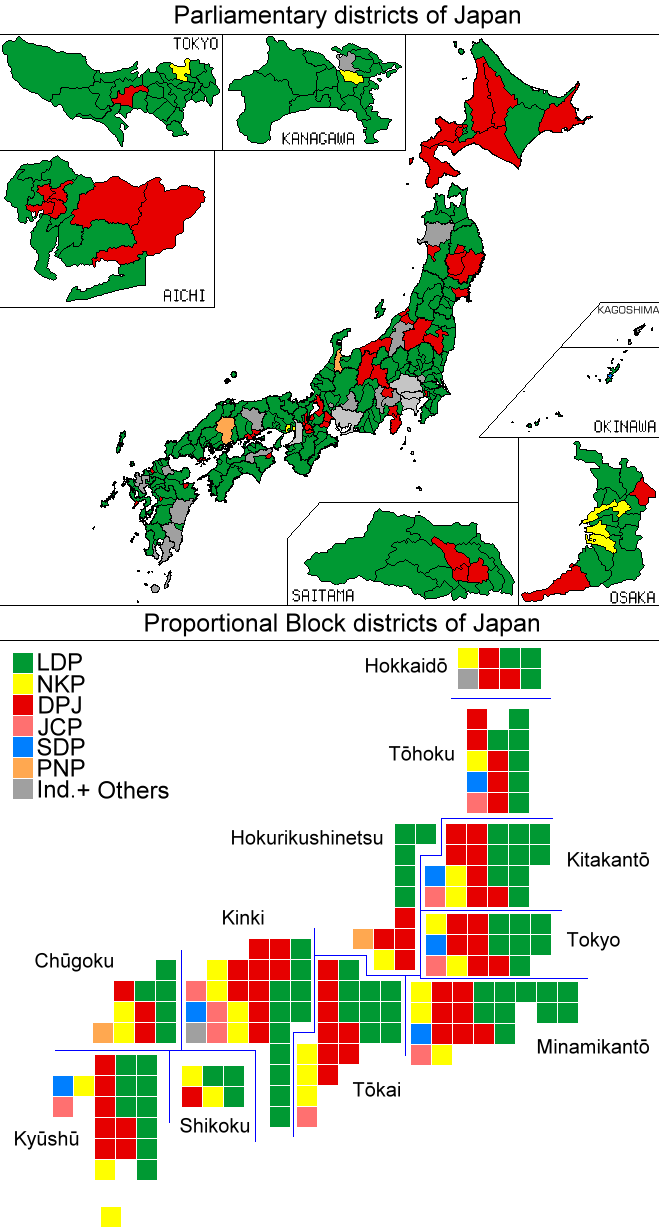 map of seats of Single member of Japanese general election, 2005 ■ - LDP ■ - DPJ ■ - Kōmeitō ■ - PNP ■ - SDP ■ - Independent factions